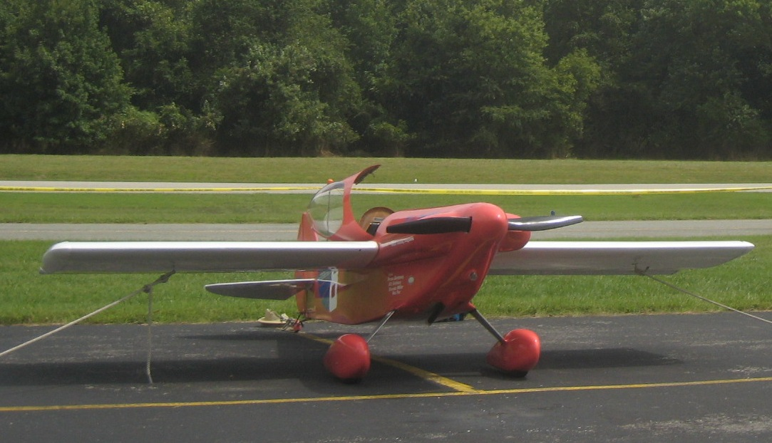 Sonerai